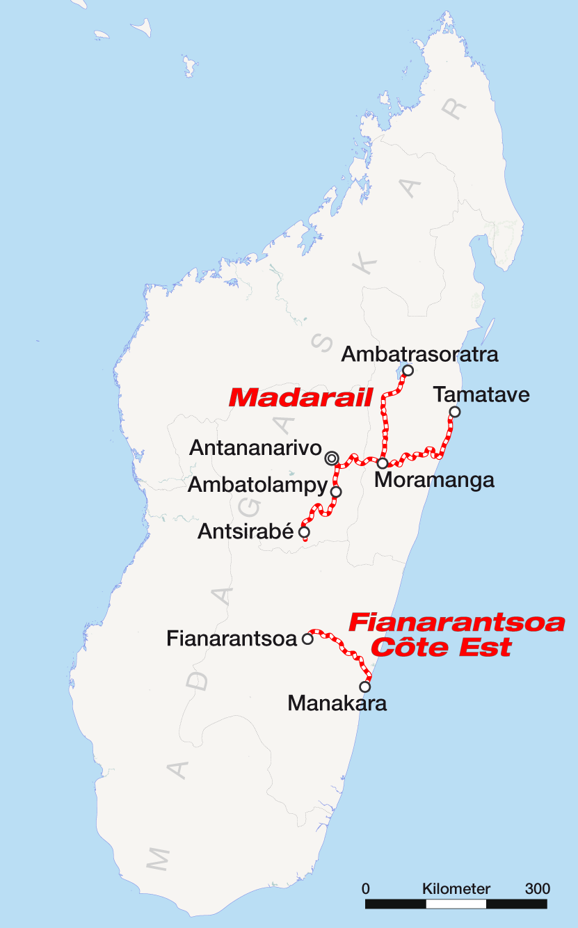 Railway map of Madagascar